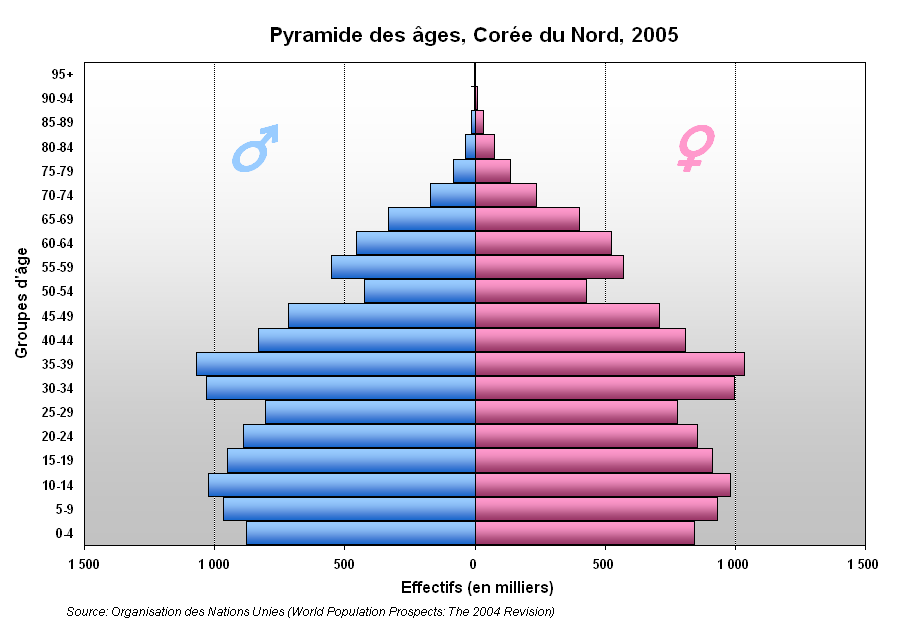 North Korea Population pyramid, 2005